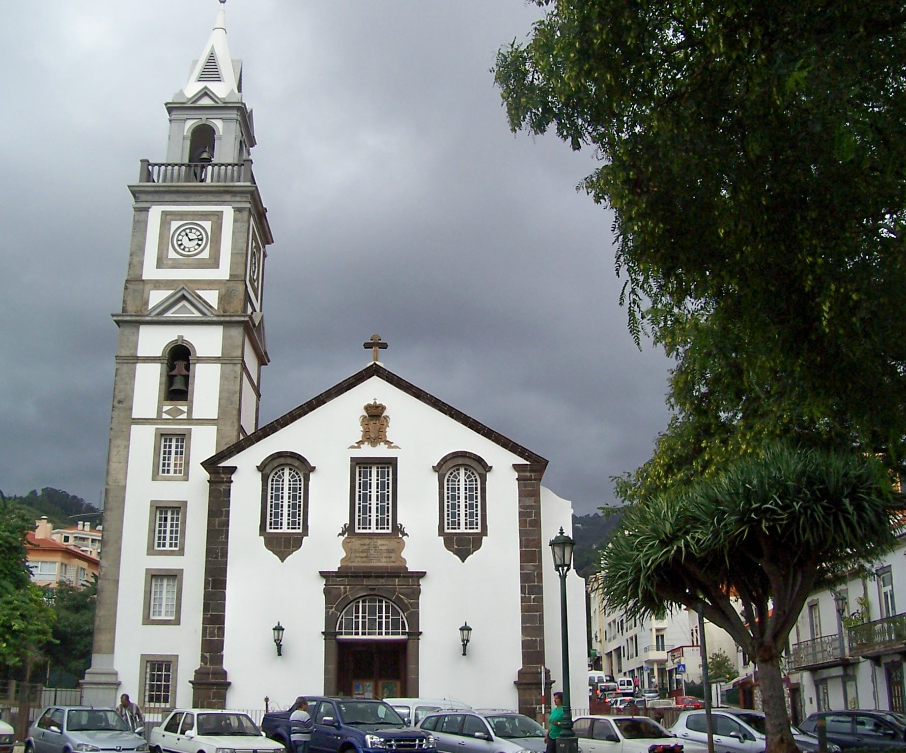 Church of Caniço, Madeira